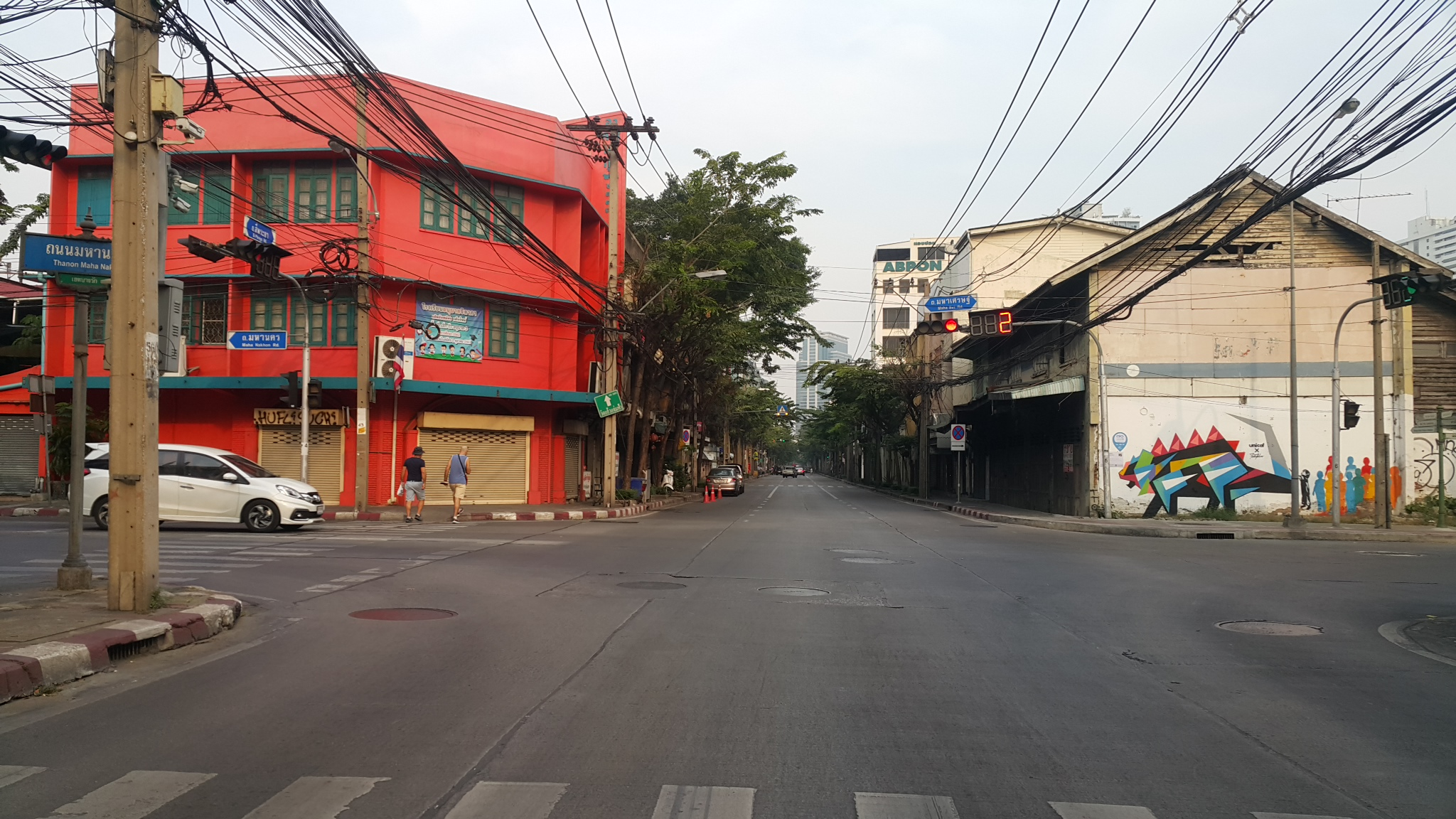 Mahanakorn intersection, Bangkok